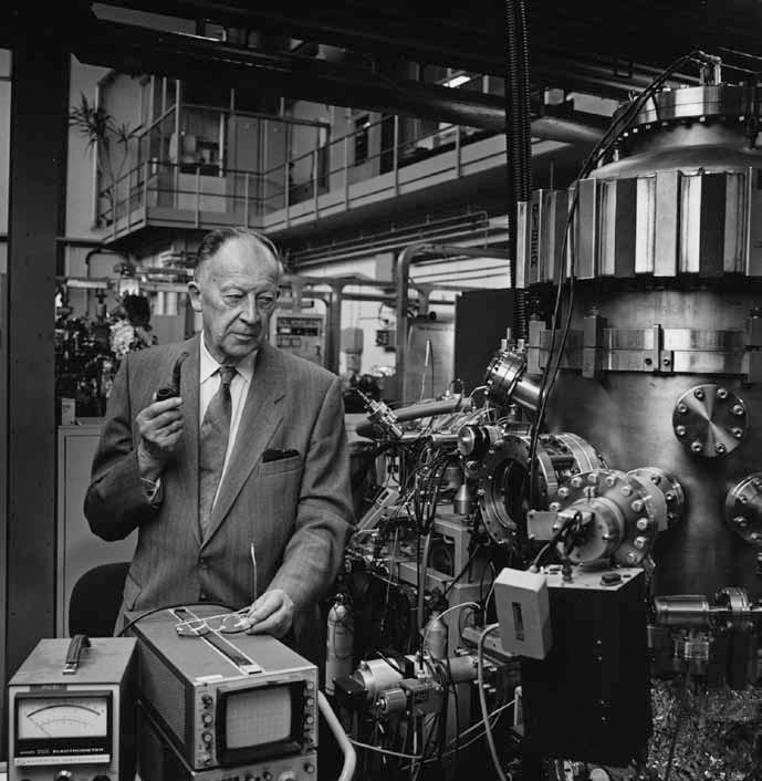 Jacob Kistemaker